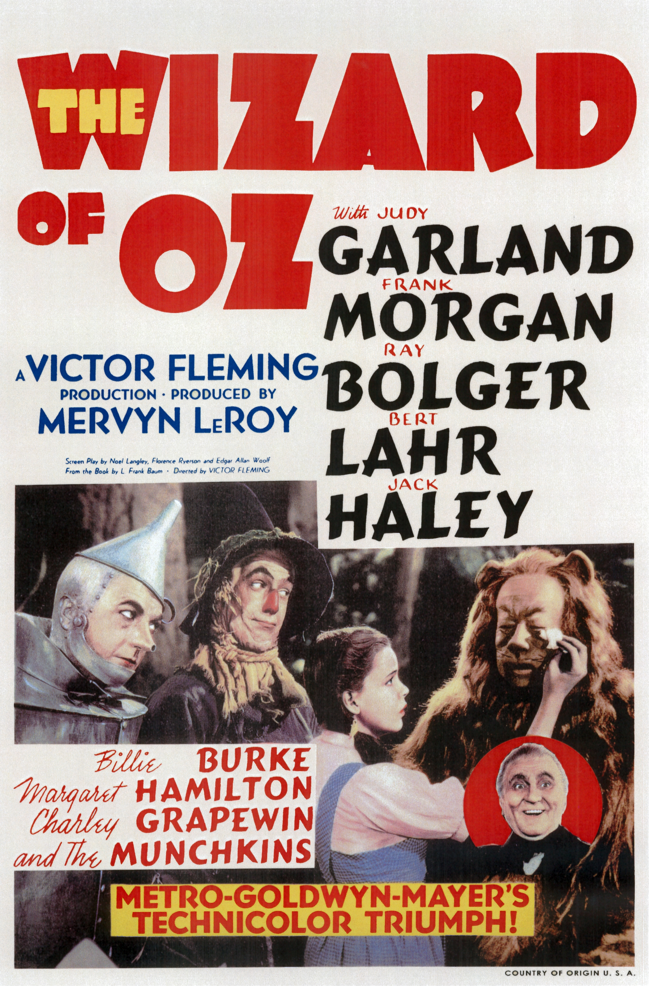 Wizard of OZ movie poster